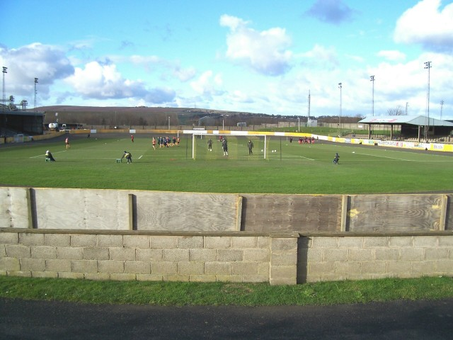 Picture taken by myself